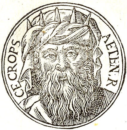 Cecrops I was a mythical king of Athens.